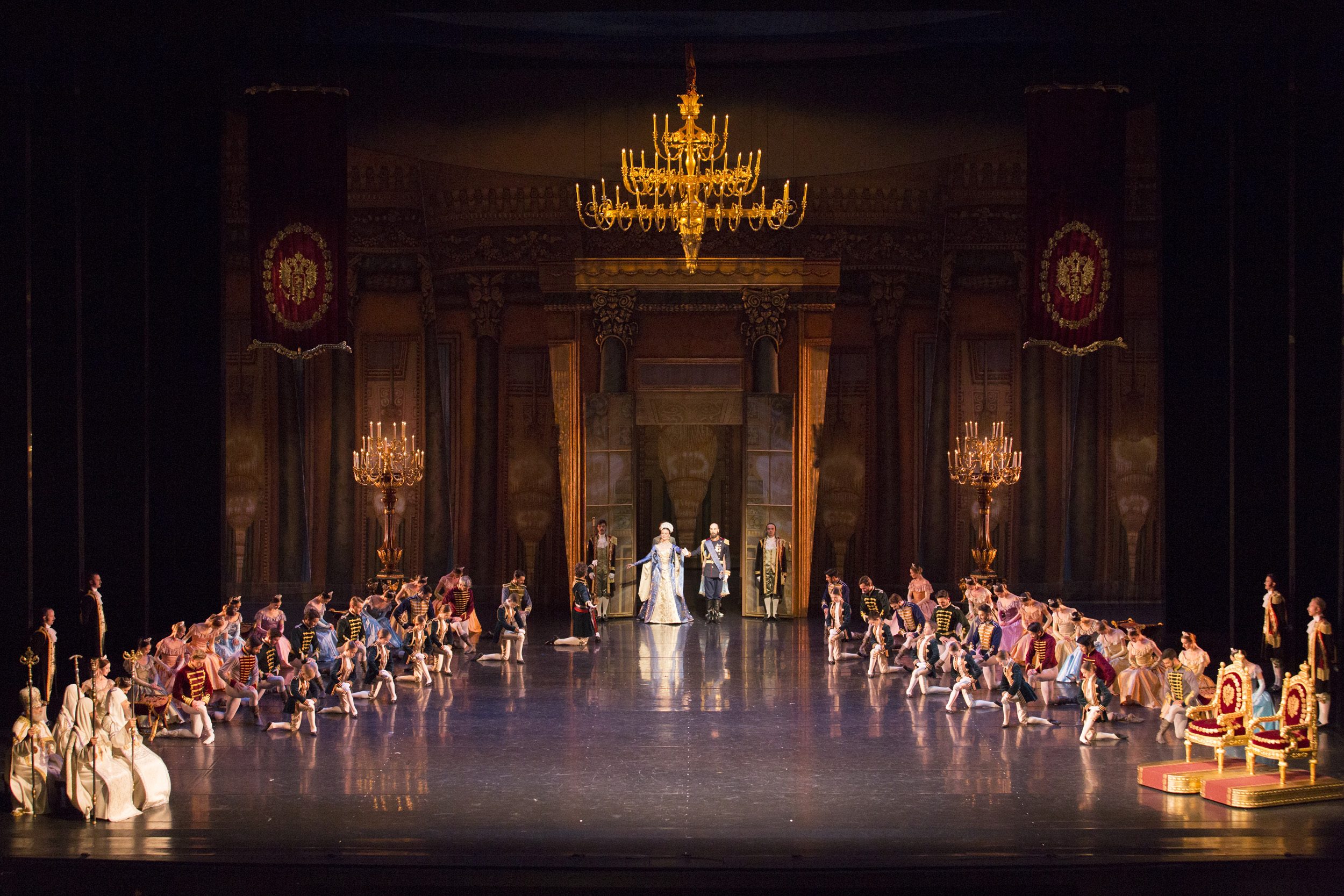 "Swan Lake" in Krzysztof Pastor's choreography, Polish National Ballet, set and costume design by Luisa Spinatelli